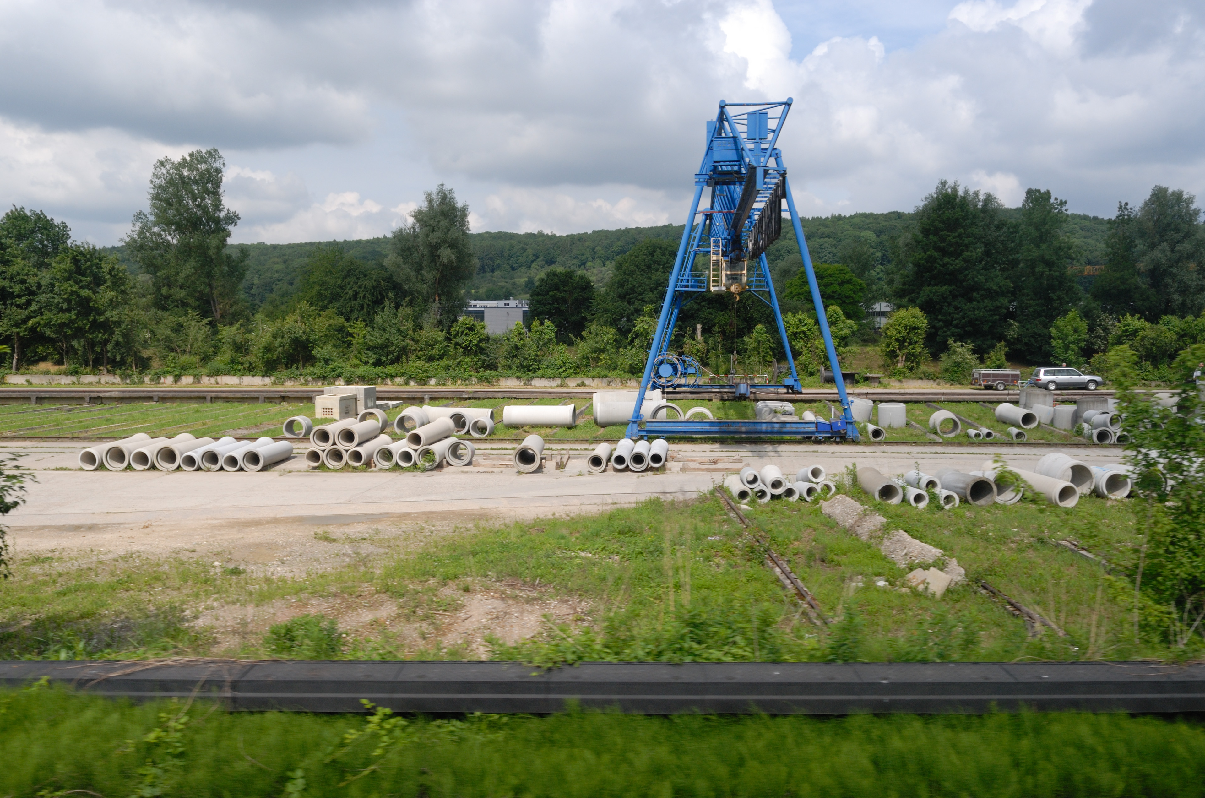 Concrete factory Wernau. Image taken from a train.